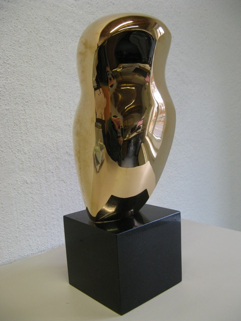 Hibou/Eil. Sculpture by Luxembourg artist Jean-Pierre Georg (1926-2004). This owl is part of the Luxembourg environmental prize "Präis Hëllef fir d'Natur".